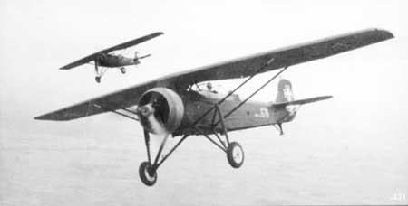 ANBO-41 No.671 of the first serial production in Kaunas.